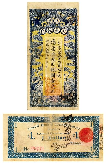 A Chinese banknote issued by the General Bank of Communications during the period when the government of the Republic of China still administered the Chinese Mainland.